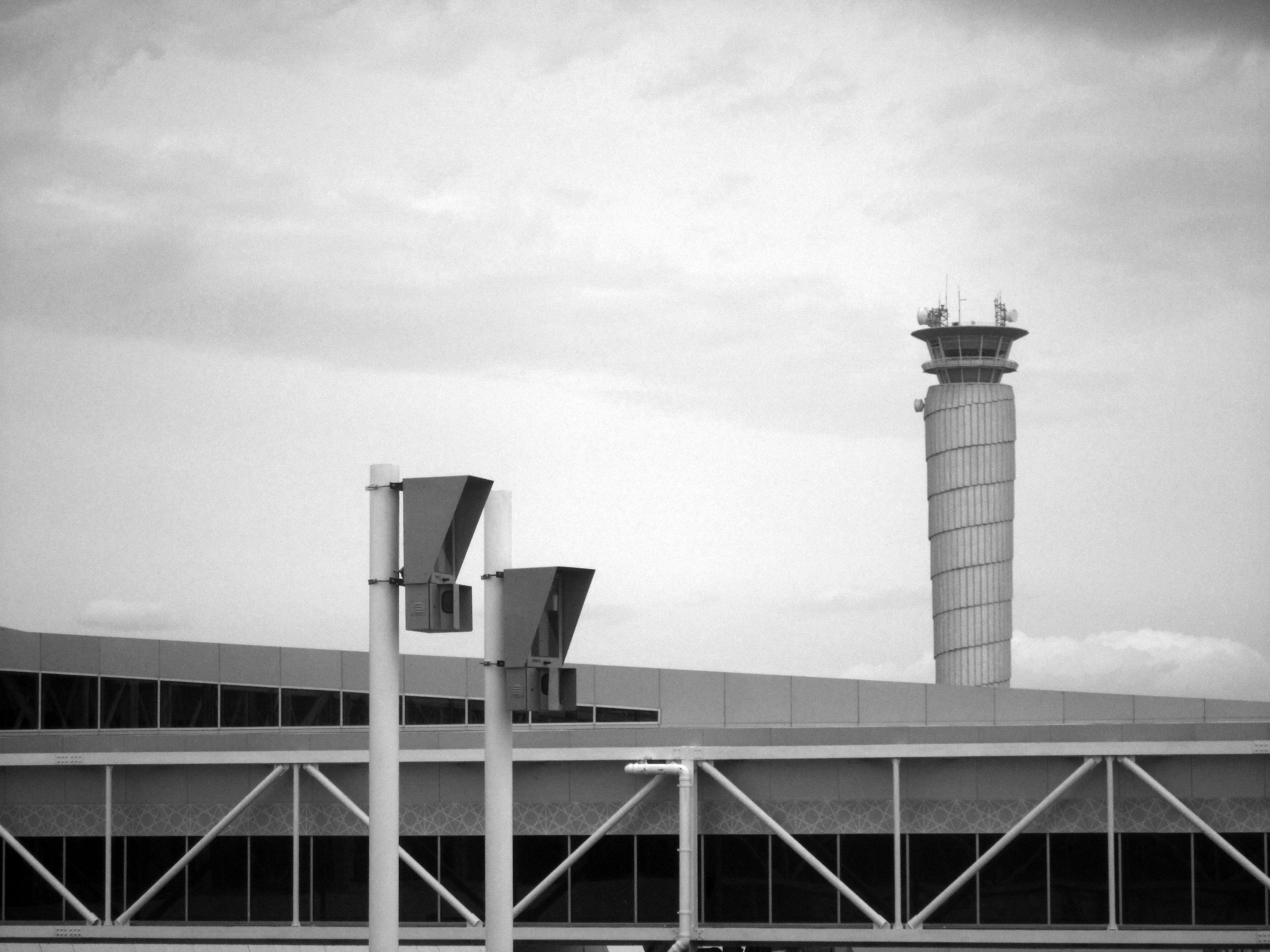 Control tower of the Enfidha-Hammamet international airport